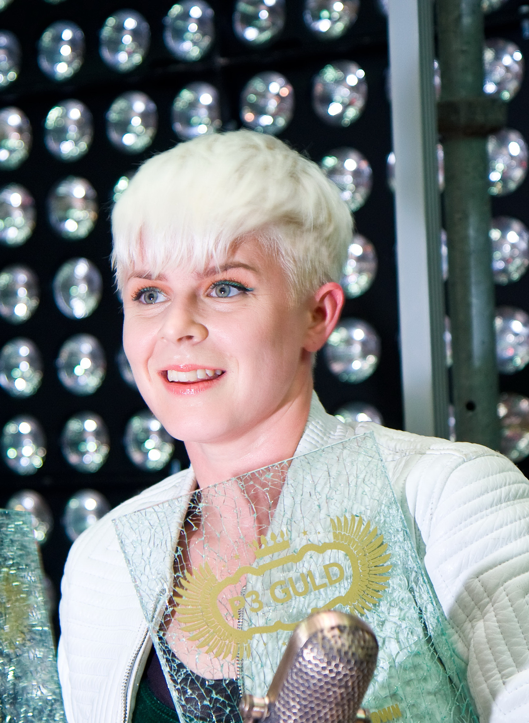 Robyn @ Lisebergshallen